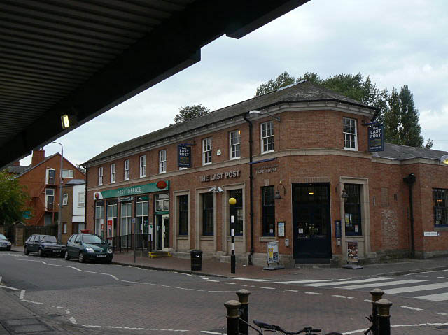 Beeston Post Office and The Last Post The Post Office has downsized as a result of the separation of the Post Office from Royal Mail. The redundant section of the building has been converted into a Wetherspoons pub.